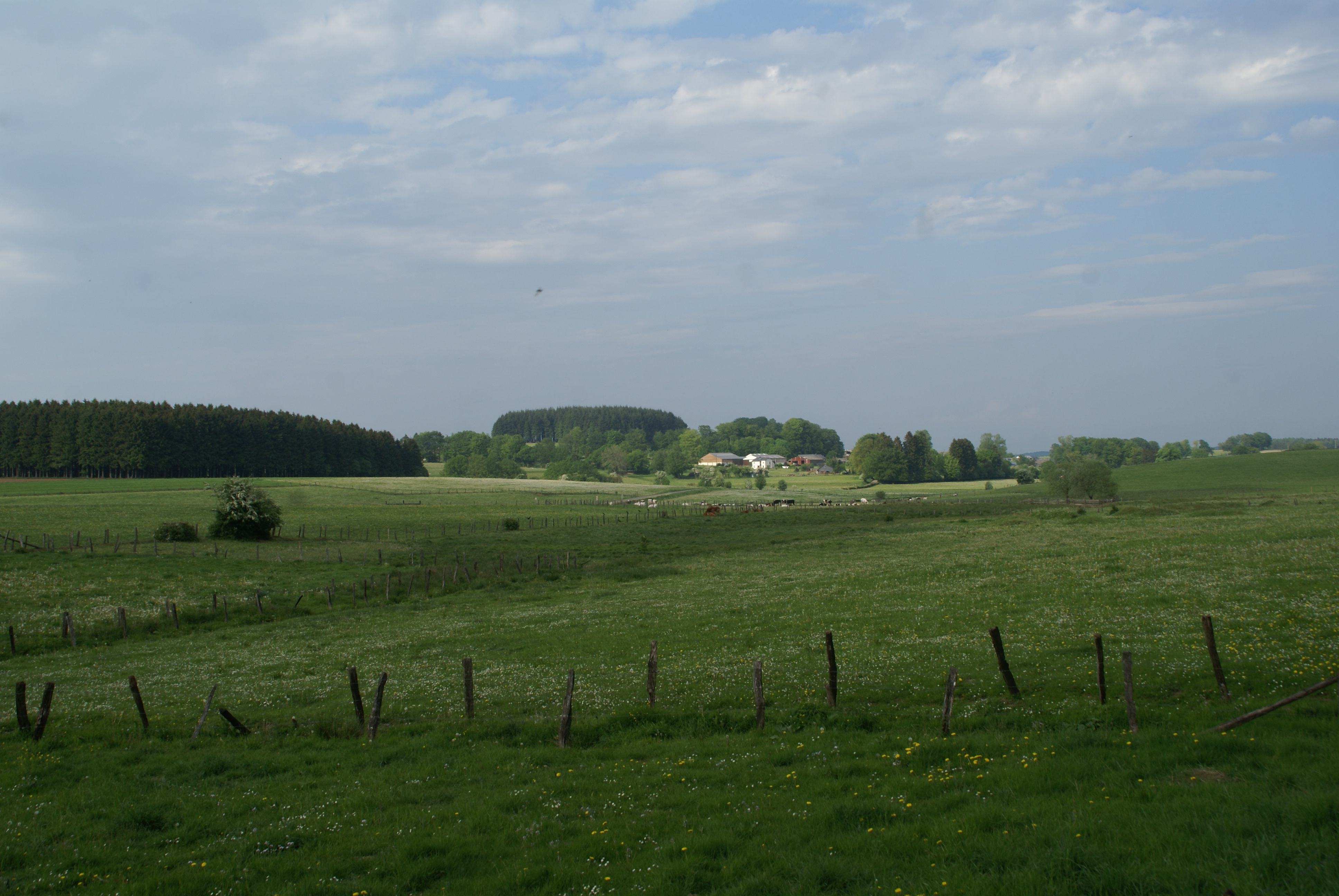 Ourt (Libramont-Chevigny - Belgium): The valley of the young river Ourthe